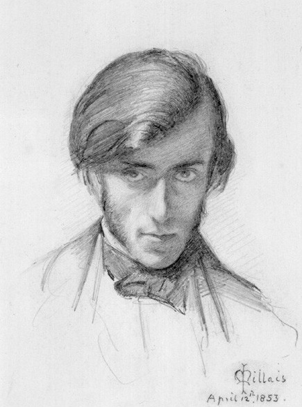 pencil drawing of FG. Stephens by JE Millais